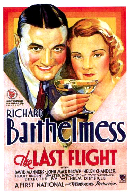 Poster for the 1931 film The Last Flight. The item has no copyright markings on it as can be seen in the links above.